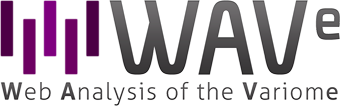 Web Analysis of the Variome